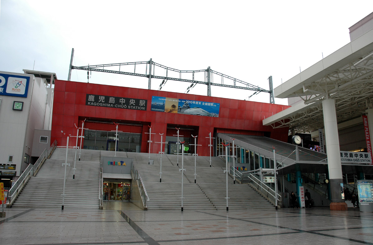 The front of Kagoshima-Chūō Station in Kagoshima, Kagoshima Prefecture